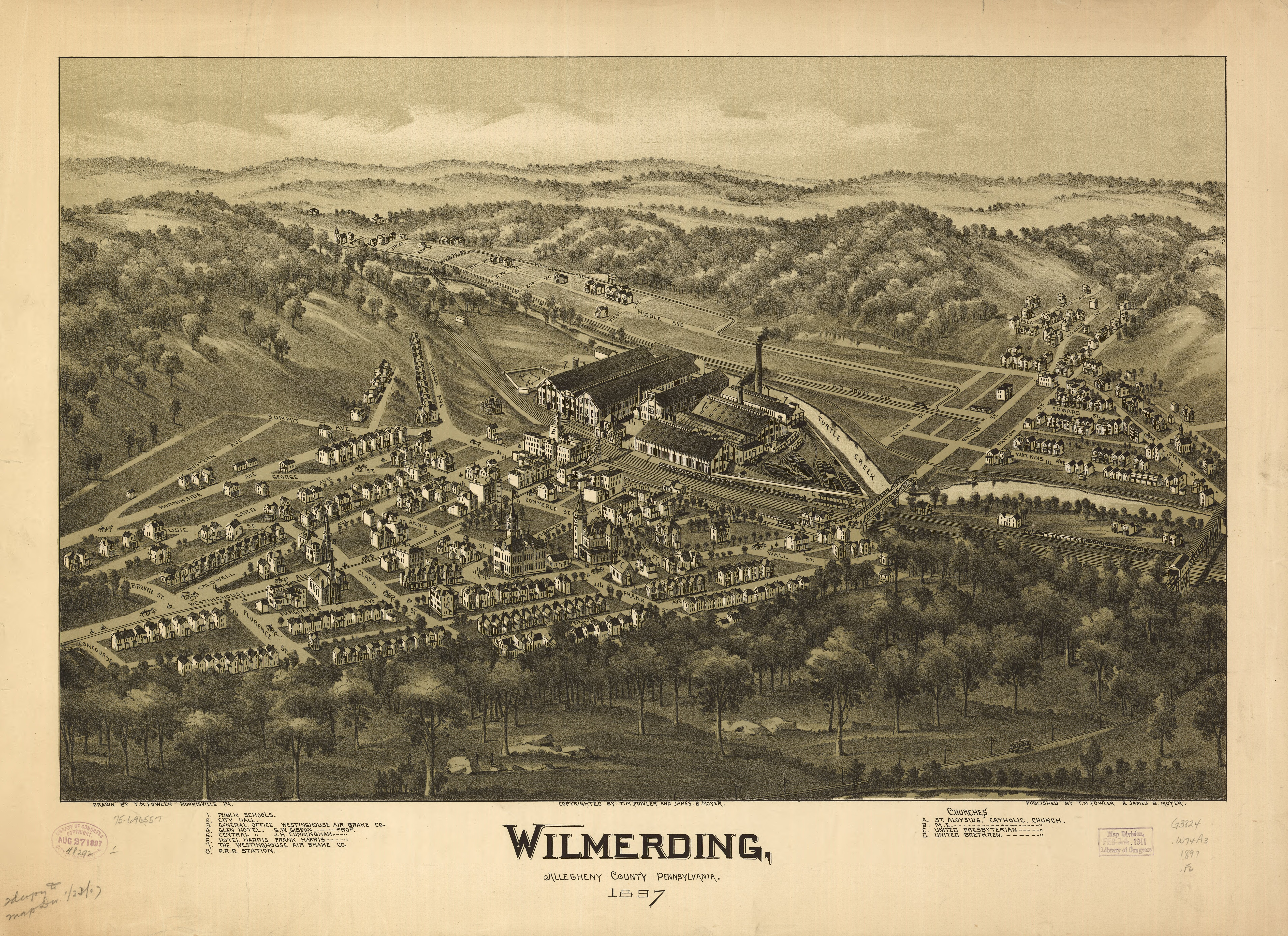 Bird's-eye view of Wilmerding, Pennsylvania by T.M. Fowler in 1897. From the Library of Congress, their metadata follows: Wilmerding, Allegheny County, Pennsylvania 1897. Drawn by T. M. Fowler. Fowler, T. M. 1842-1922. (Thaddeus Mortimer), CREATED/PUBLISHED Morrisville, Pa., T. M. Fowler & James B. Moyer [1897] NOTES Perspective map not drawn to scale. Bird's-eye-view. Reference: LC Panoramic maps (2nd ed.), 874 Indexed for points of interest. SUBJECTS Wilmerding (Pa.)--Aerial views. United States--Pennsylvania--Wilmerding. RELATED NAMES Moyer, James B. MEDIUM col. map 37 x 59 cm. CALL NUMBER G3824.W74A3 1897 .F6 REPOSITORY Library of Congress Geography and Map Division Washington, D.C. 20540-4650 USA DIGITAL ID g3824w pm008740